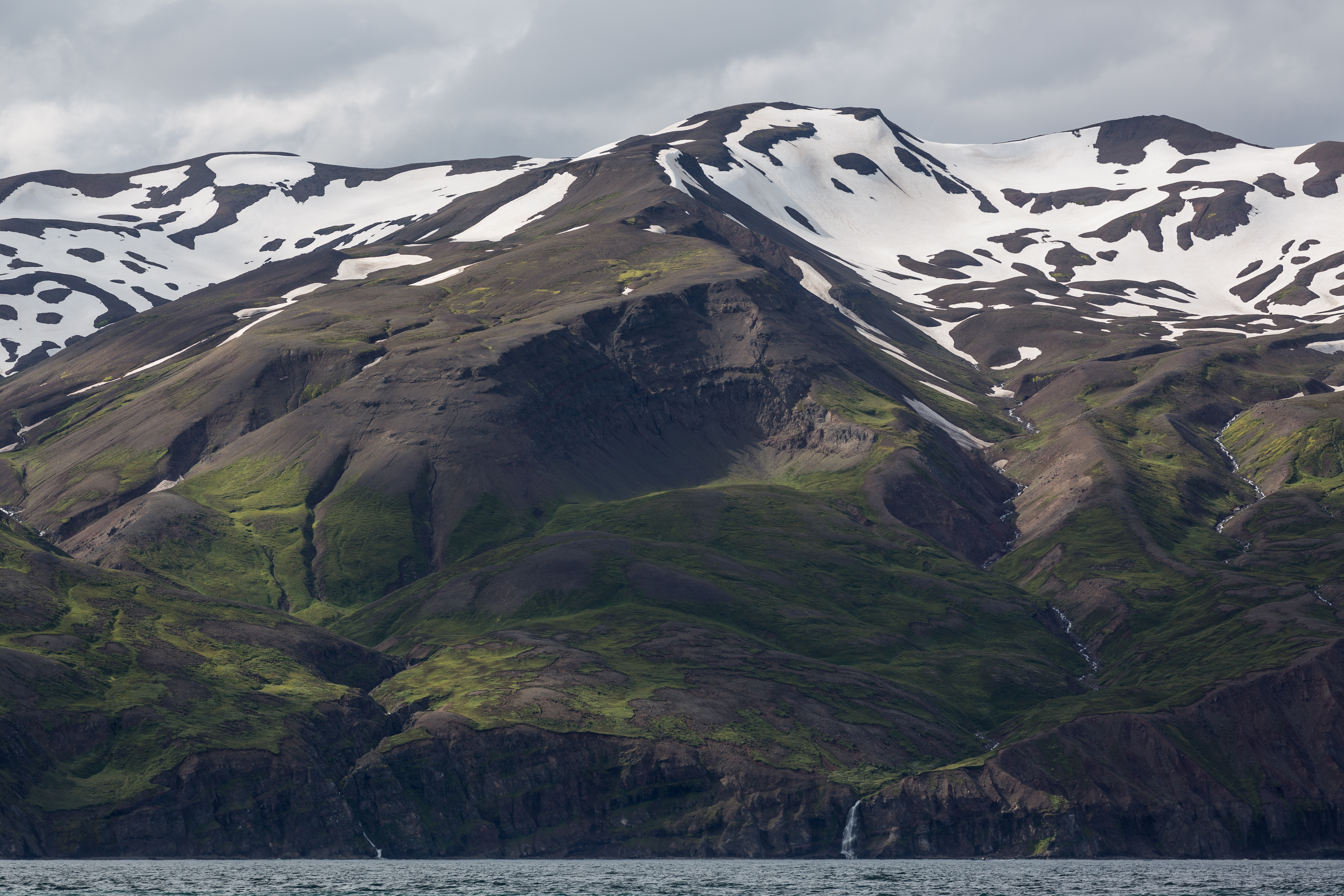 Landscape looking west from Skjálfandi (Víknafjöll or Kinnarfjöll)